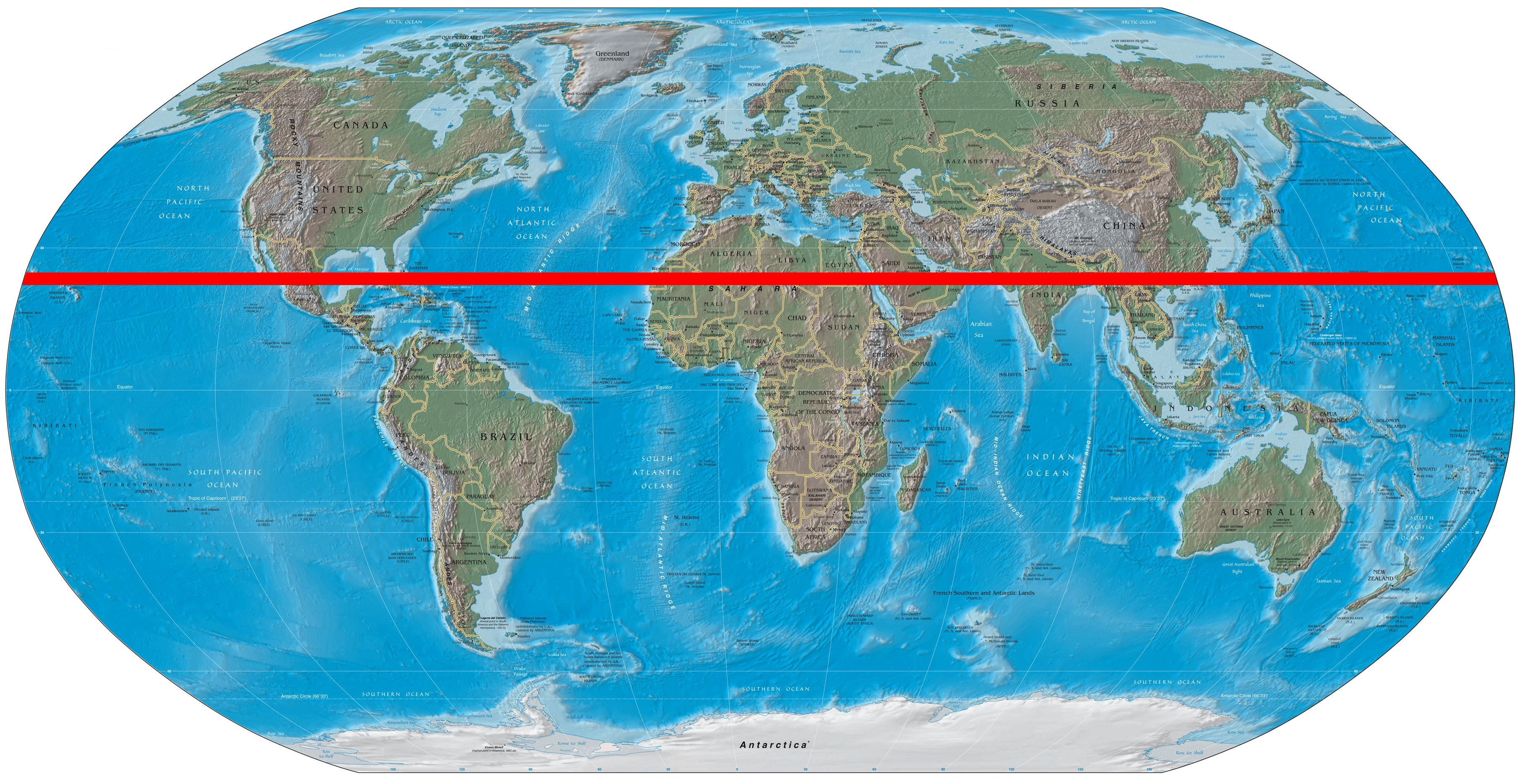 Based on public domain CIA World Fact book image with the Tropic of Cancer bolded in red